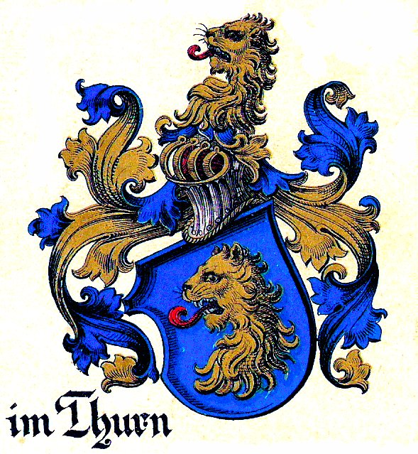 Coat of arms Im Thurn